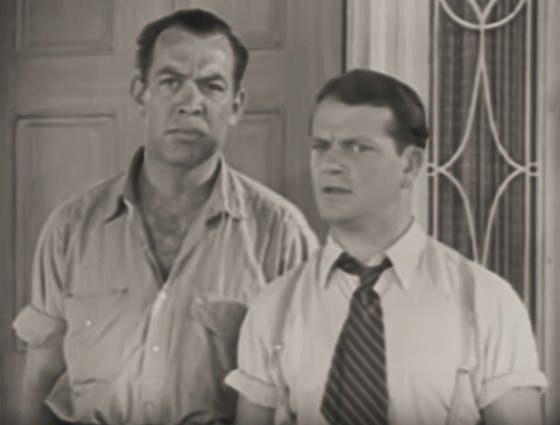 Ward Bond (left) & Murray Alper in Escape by Night (1937) - cropped screenshot